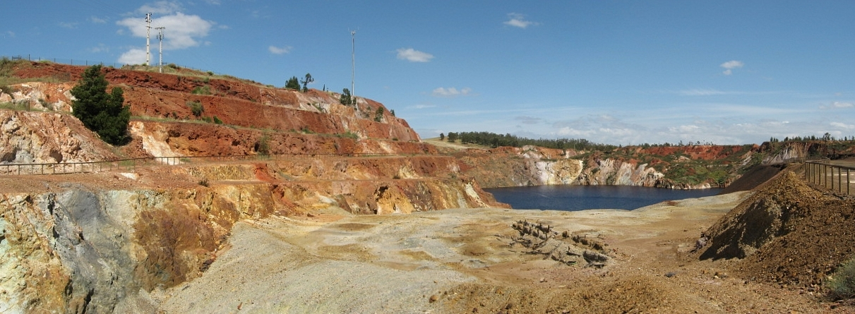 Mina de Sao Domingos, 15 km north of Mertola (Portugal)